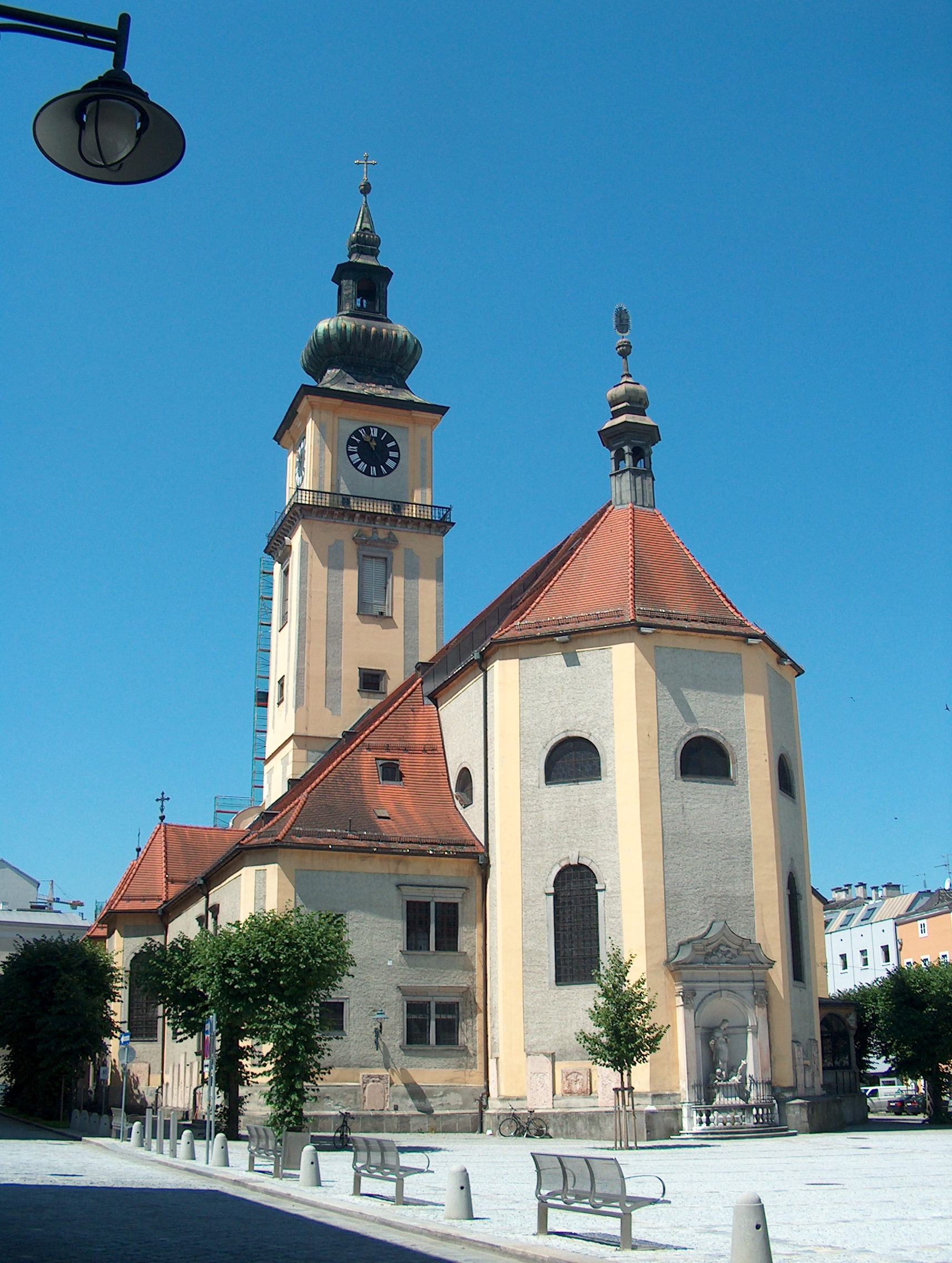 Stadtpfarrkirche in Linz, Austria